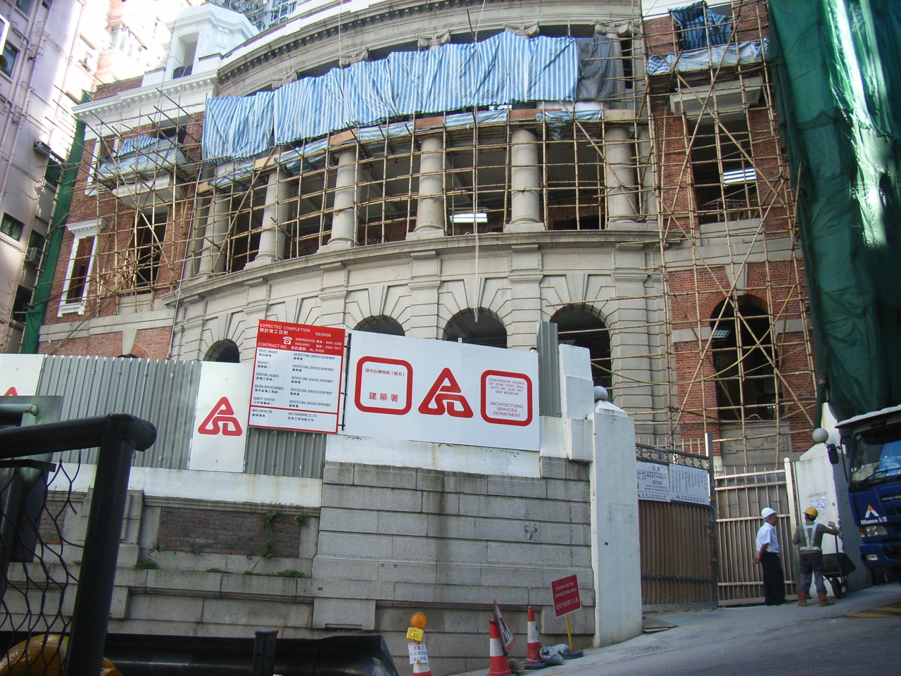 由香港zh:建築署全盤負責的中環半山區zh:衛城道7號香港孫中山博物館工程項目, The conversion works of Kom Tong Hall into Dr Sun Yat Sen Museum is located in Castle Road, Hong Kong. By KennethTom